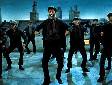 Screenshot from the trailer for the film Mary Poppins